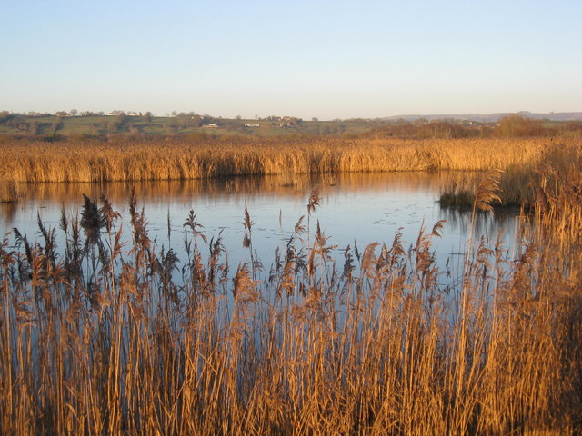 Westhay Moor National Nature Reserve These former commercial peat workings have been very successfully turned into a major wildlife reserve. Here the reed beds are the night time roost for large flocks of starlings which spectacularly swoop down at dusk.